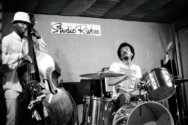 Studio Rivbea, NYC July, 1976